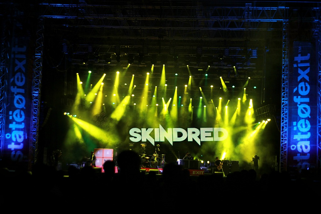 Skindred, EXIT 2012.